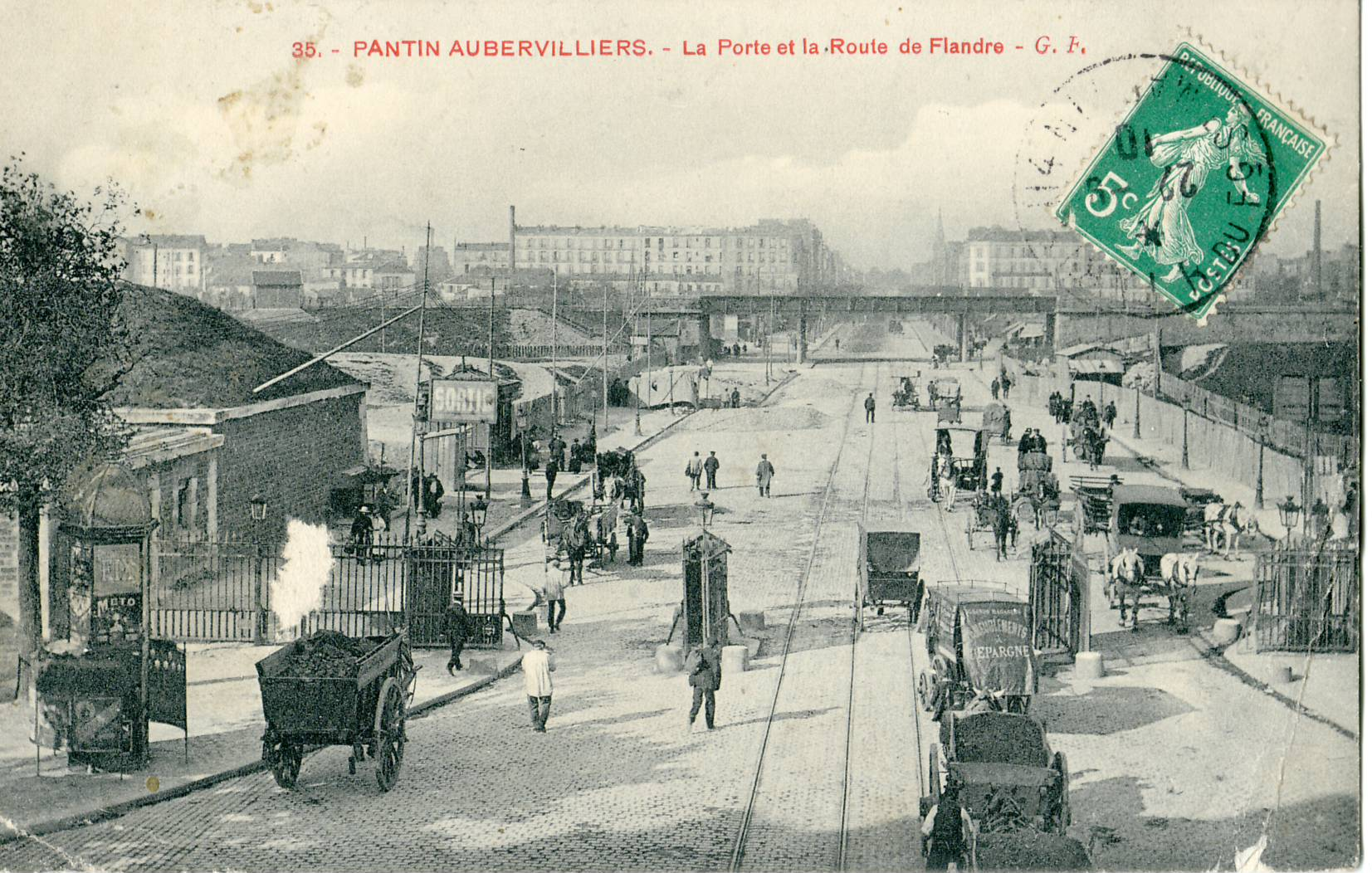 Carte postale ancienne éditée par GF, n°35PANTIN - AUBERVILLIERS : La Porte et la Route de FlandreIl s'agit de la Porte de la Villette, au niveau des fortifications, où débute la RN2